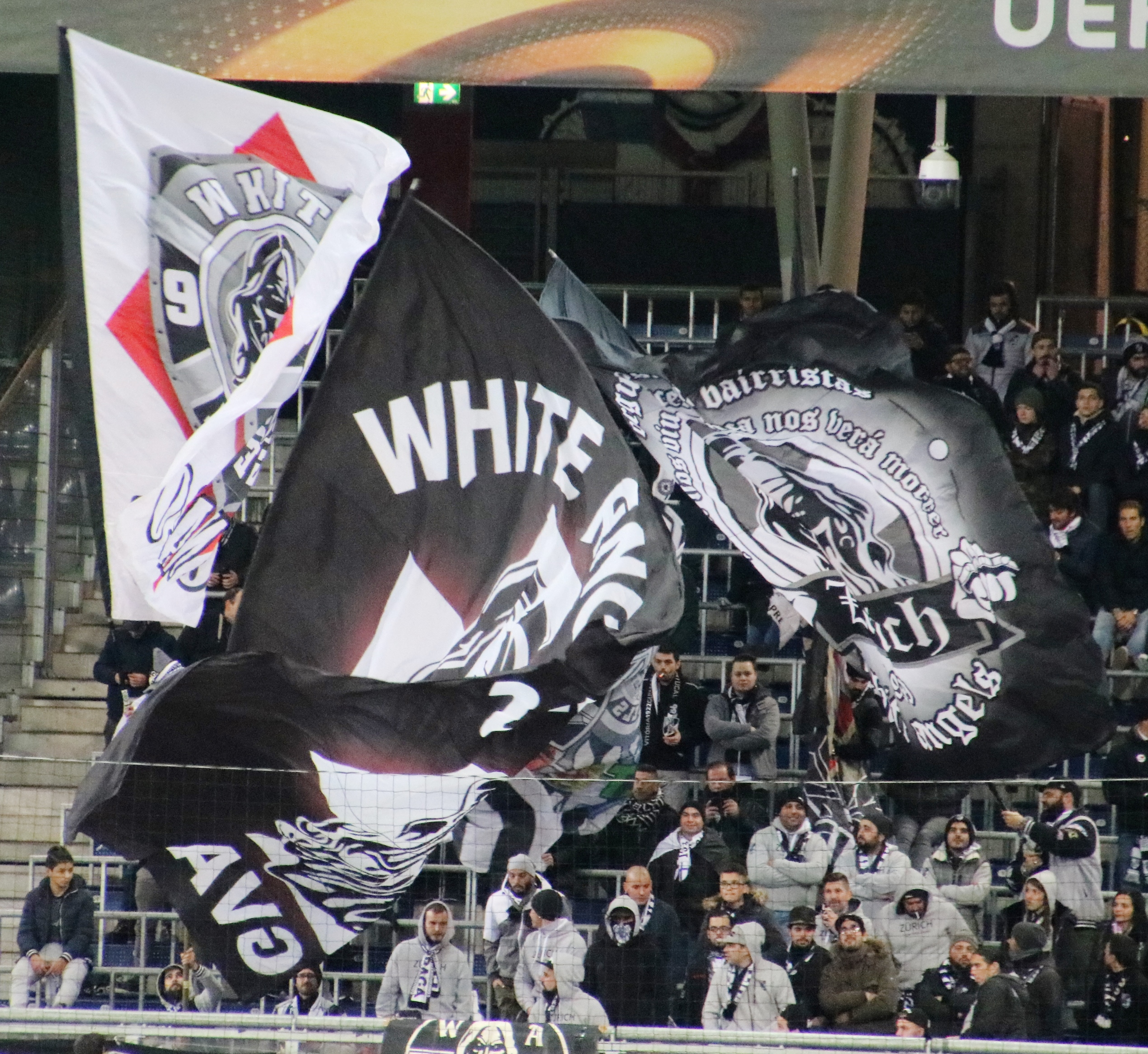 uefa euro league group stage group I 5th round